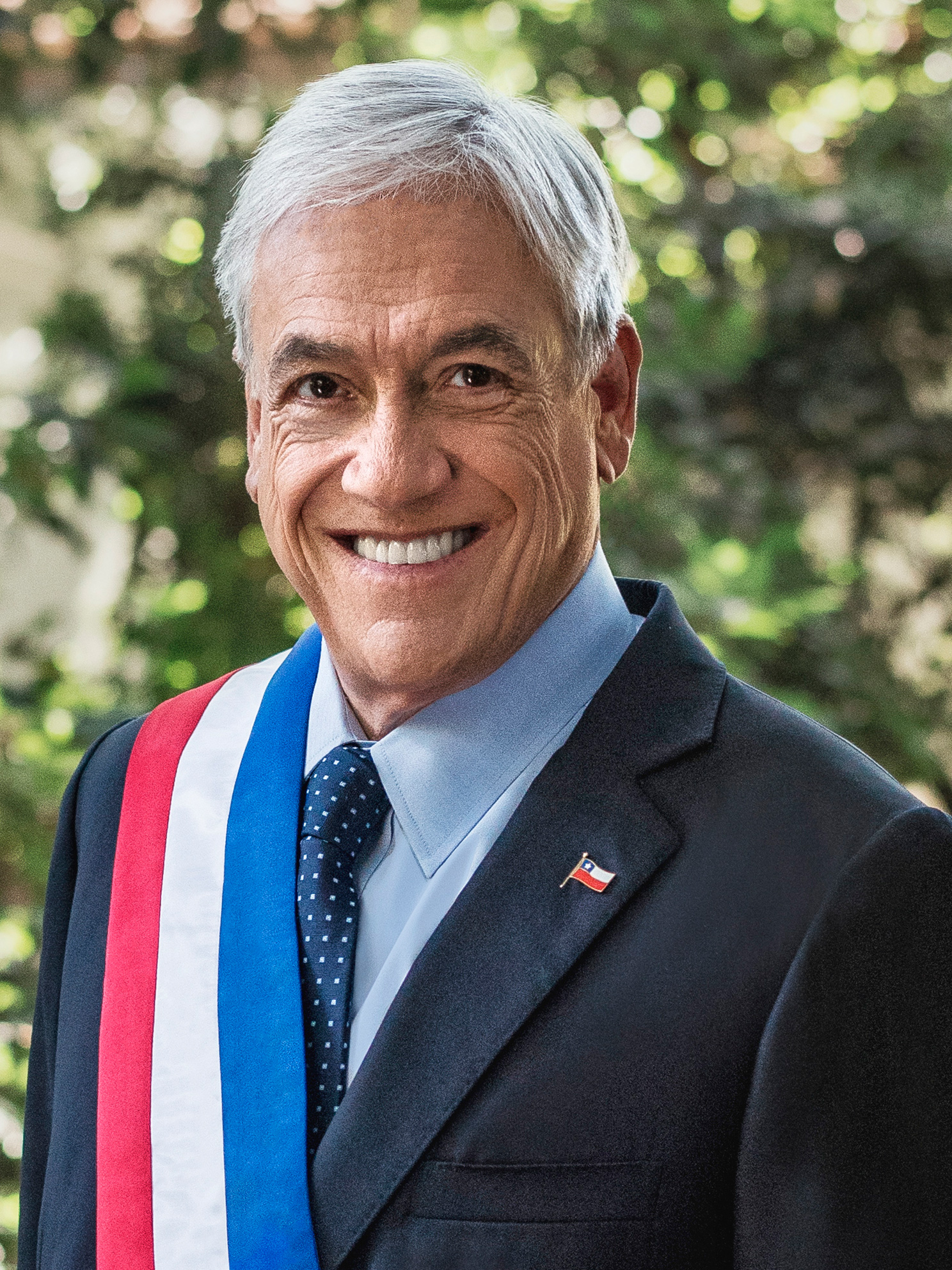 Official photograph of the President of the Republic 2018-2022, Sebastián Piñera Echenique.